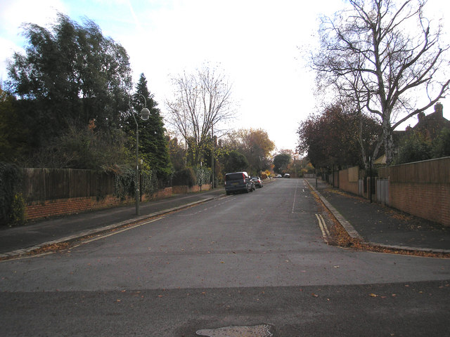 Northmoor Road, Oxford Looking south from its junction with Belboughton Road